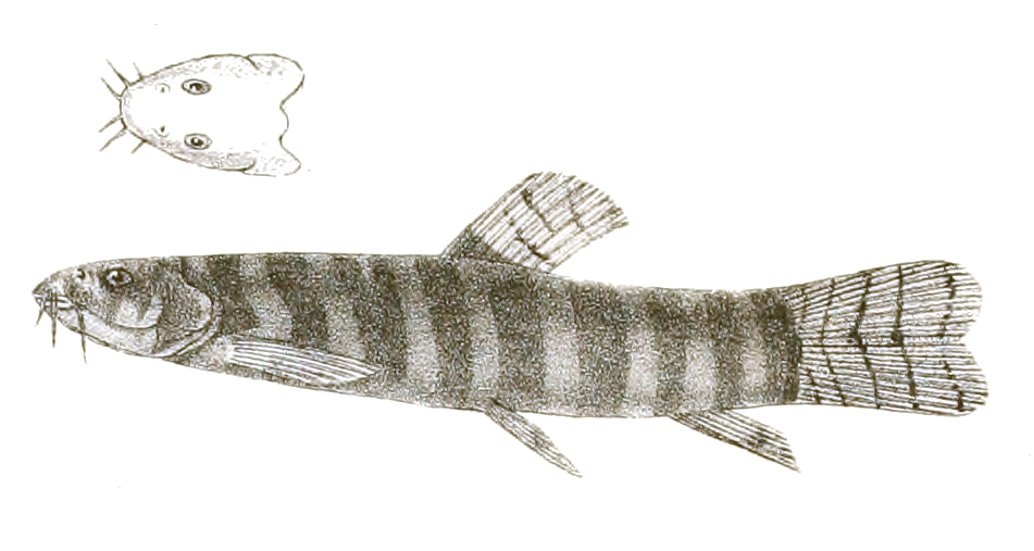 The species names / identity need verification - original names from plate are included here. The original plates showed the fishes facing right and have been flipped here. Nemacheilus denisonii